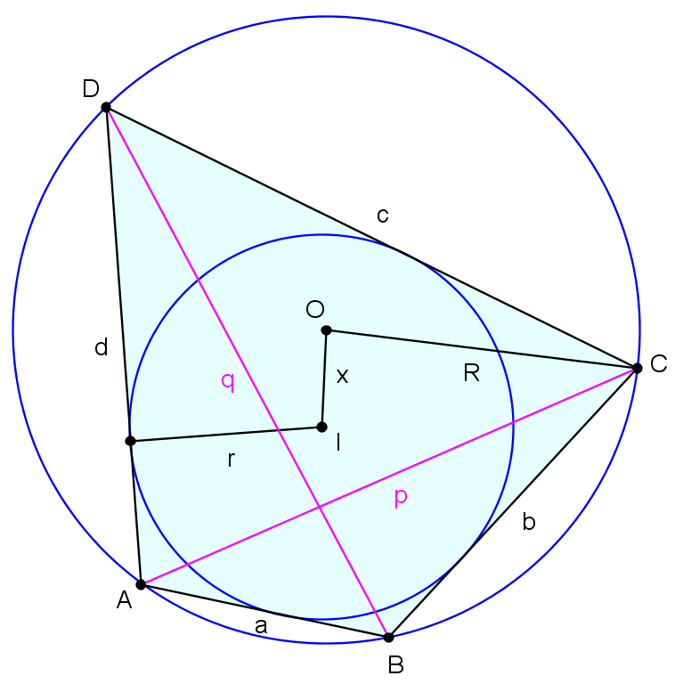 Circumcircle, incircle, diagonals